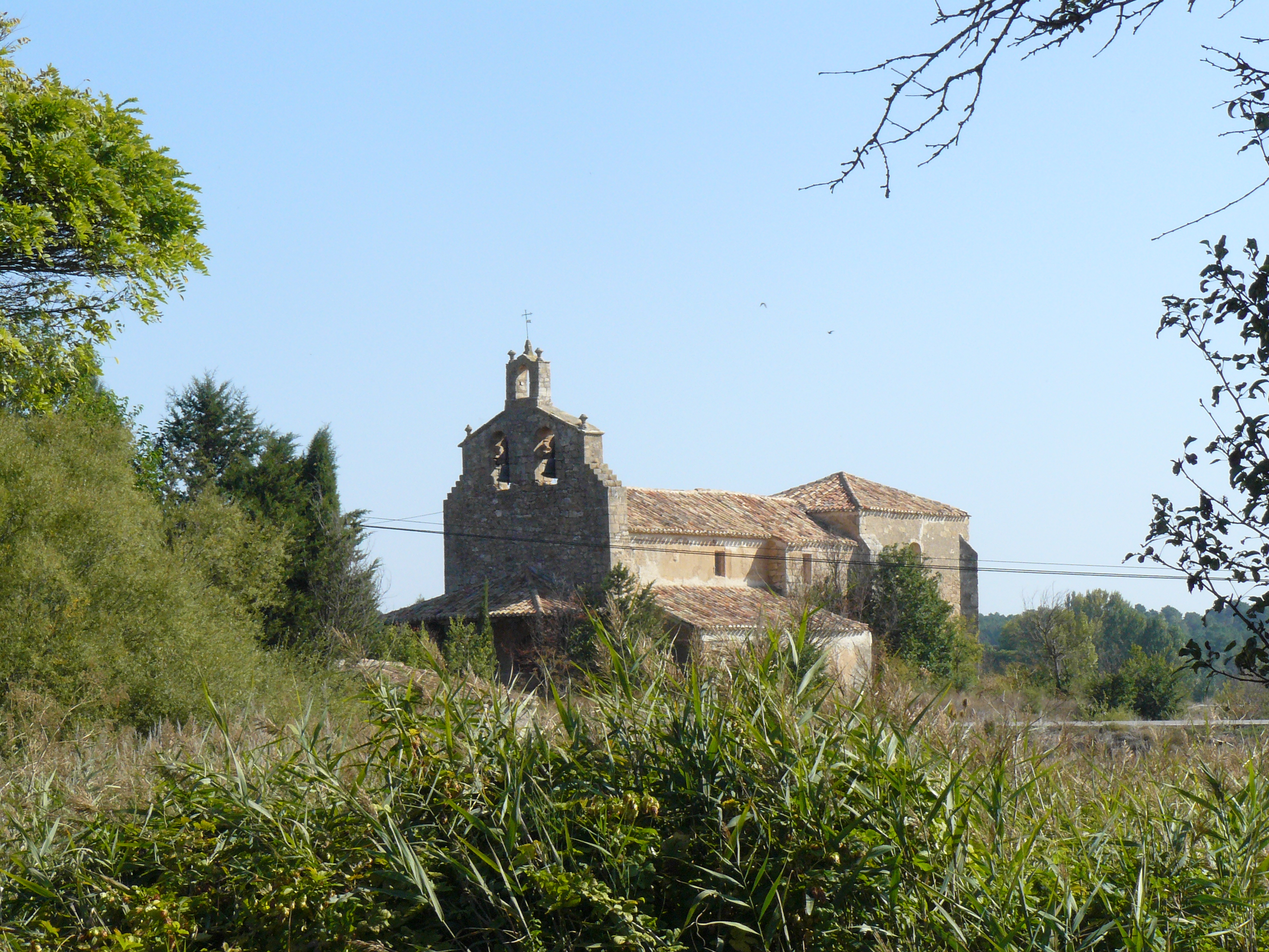 Hermitage at Hortezuela, Soria (Spain).